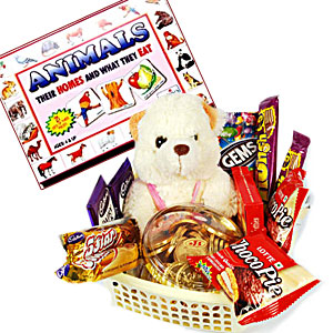 A soft-toy and chocolate gift hamper